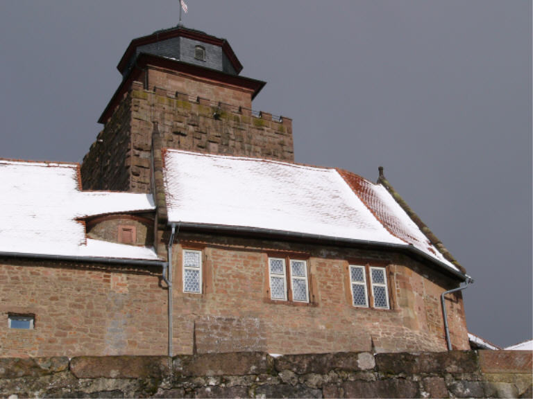 Breuberg Castle - keep